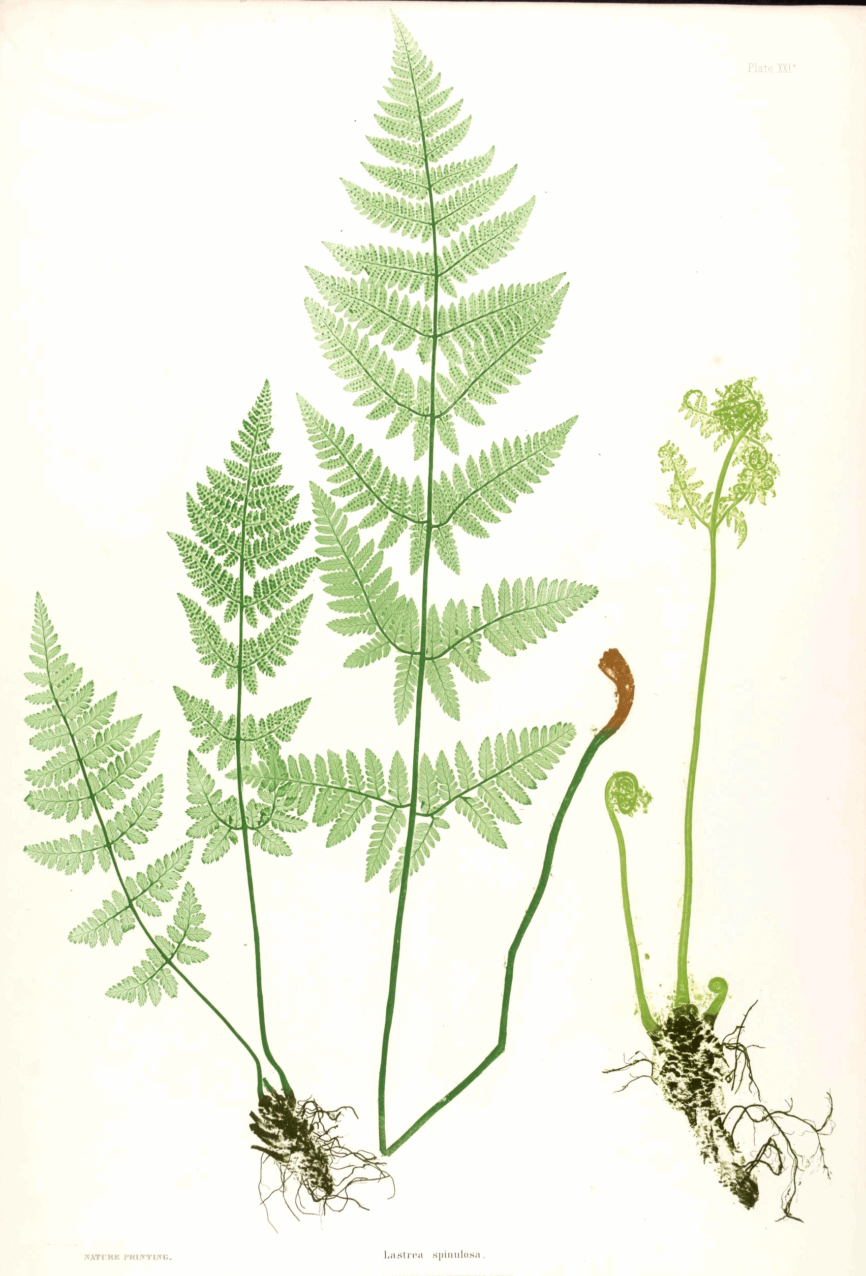 Plate from book